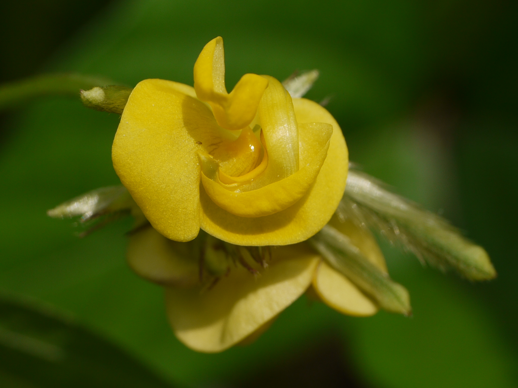 Fabaceae (pea, or legume family) » Vigna radiata VIG-nuh -- named for Prof. Dominico Vigna, 17th century Italian botanist rad-ee-AY-tuh -- meaning, spreading rays commonly known as: golden gram, green gram, mash bean, mung bean, wild mung • Gujarati: મૂંગ mung • Hindi: जंगली मूंग jungli mung • Kannada: pacha hesaru • Konkani: मूग muga • Malayalam: cerupayar, putsja-paeru • Marathi: रानमूग raan muga, वेल मूंग vel mung • Sanskrit: मुद्ग mudga • Tamil: பச்சைப்பயறு pachai payaru • Telugu: పచ్చ పెసలు pacha pesalu Native to: India References: Flowers of India • PIER species info • Common Indian Wild Flowers by Isaaac Kehimkar